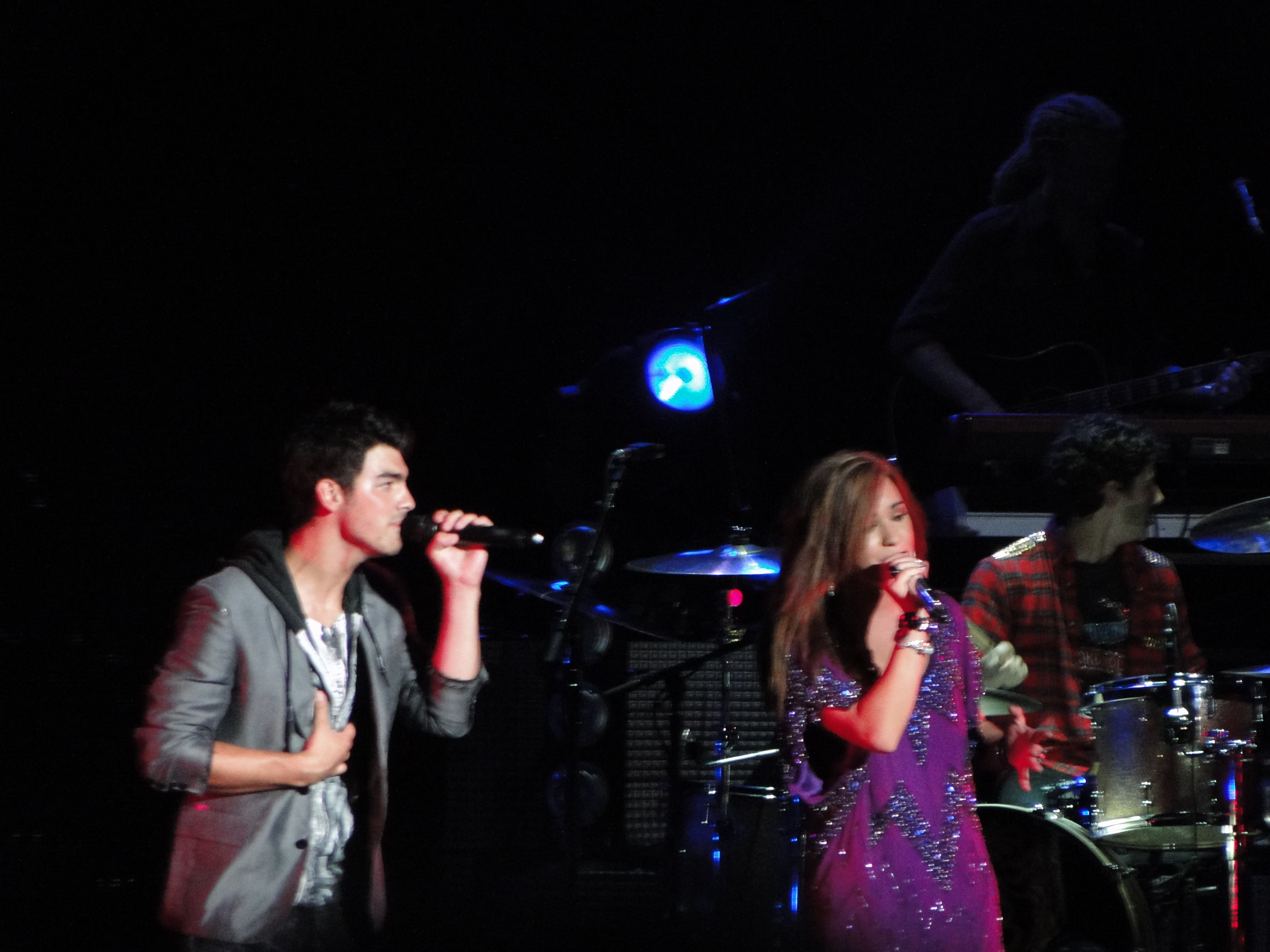 Joe Jonas and Demi Lovato performing.